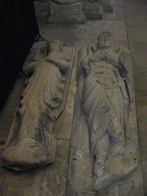 14th C Monuments, South Choir Aisle, Hexham Abbey. These monuments of Baron Gilbert de Umfraville (1245-1307), Lord of Prudhoe, and his wife are badly defaced. The shield bears heraldic arms cut in relief. The Baron was one of the most famous members of his family who lived at 93654; he inherited the title of Earl of Angus and fought under Edward I against Scotland and Wales. {Source: Hexham Abbey Guide p16.}